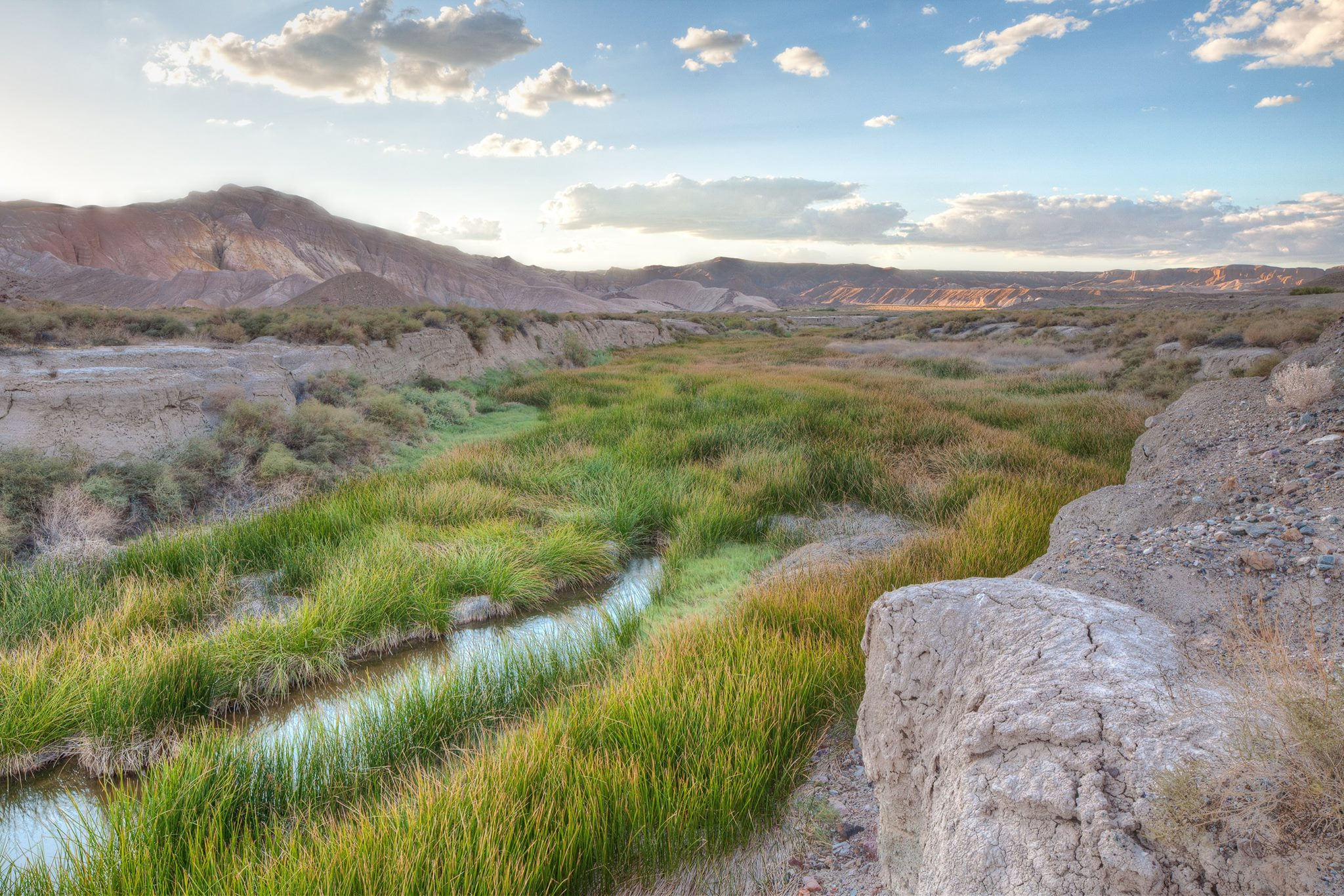 The July #conservationlands15 social media takeover today is exploring the BLM’s wild and scenic rivers. What makes a river wild and scenic? Rivers or sections of rivers within the National Wild and Scenic River System must be free-flowing and have at least one ORV or outstandingly remarkable (unique or rare) value, such as scenic, recreational, geologic, fish, wildlife, historic, cultural or other feature. Pictured here, the BLM’s Amargosa Wild and Scenic River in California is known for its wildlife value. The Amargosa vole is an endangered mammal isolated to the wetlands associated with the Amargosa River. Biologists last year determined that the endangered Amargosa vole had an 82% chance of going extinct within the next five-years, if immediate management actions were not taken. So the BLM California, researchers at UC Davis, and a group of partners created the multi-agency Amargosa vole team to rescue the tiny rodent living precariously in the rare marshes of the Mojave Desert. The entire Amargosa river basin spans two states and is considered one of the most important desert waterways in the southwestern US. The Amargosa vole team and associated work will benefit other wildlife species in the area - 250 species of resident and migratory birds use the riparian area, as do three sensitive fish and spring snail species which occur nowhere else on earth. The partnership, monitoring, and research efforts may have far reaching benefits that can assist desert conservation and climate adaptation efforts in California and the southwest.